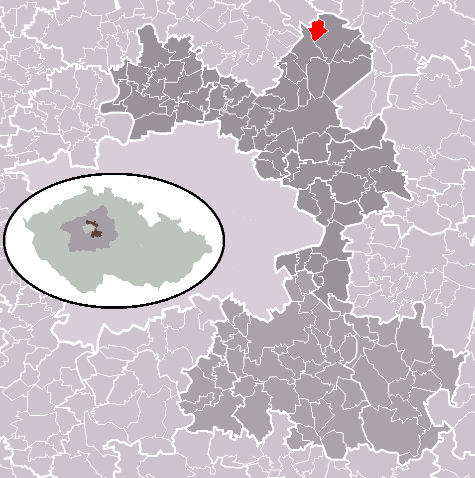 Location of Konětopy municipality within Prague-East District and administrative area of Brandýs nad Labem-Stará Boleslav as a Municipality with Extended Competence.